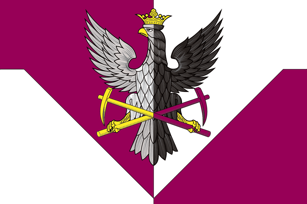 Flag of Boksitogorsk urban settlement, Leningrad Region, Russia